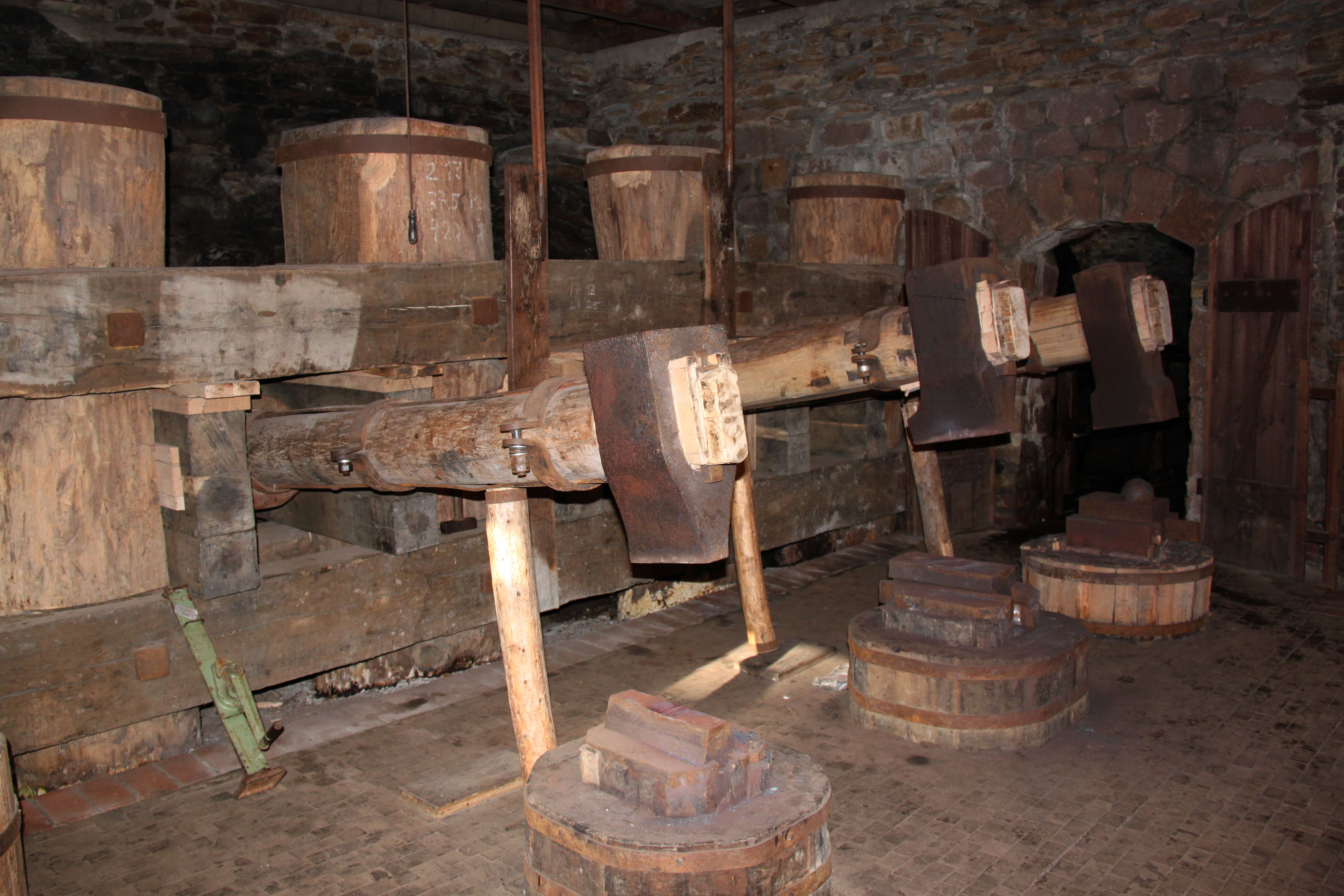 This image shows the historic ironworks in Freibergsdorf in the Erzgebirge